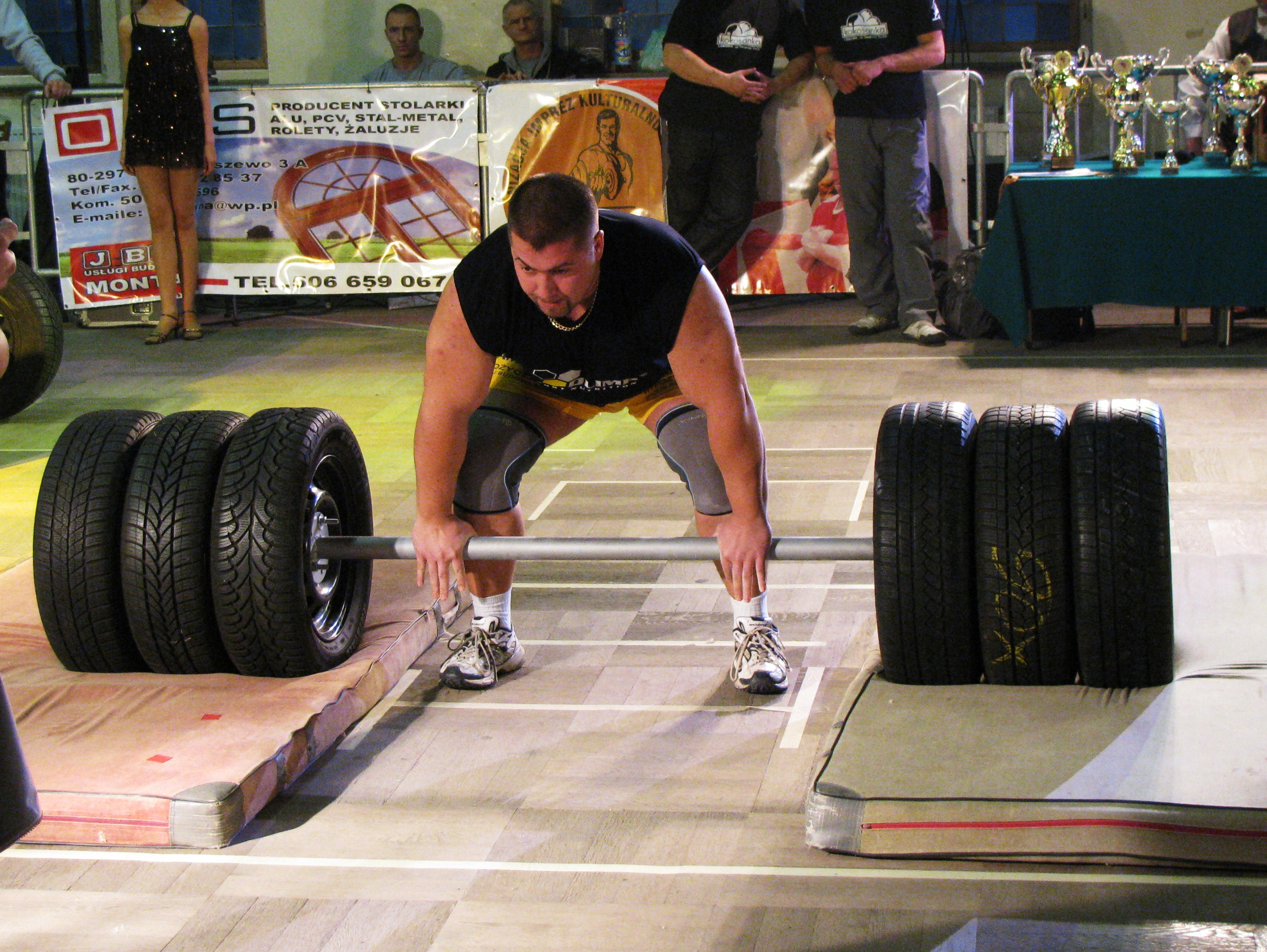 Strongmen event: Axle Lift.